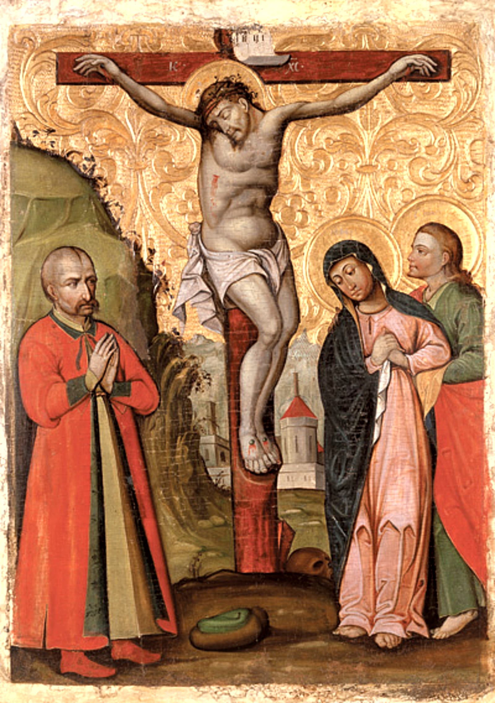 Crucifixion. An Icon from Pyriatyn (Ukraine) with a portrait of Leontiy Svichka, regimentar of Cossack Lubny regiment (wood, tempera. circa 1699. 84х58.5 см. МІОМ, Kyiv)